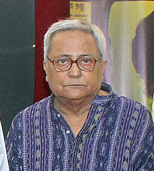 Asim Basu's short-story collection Jeebana-Jaha-Jemiti launched at State Archives, Bhubaneswar on 4th June 2016. The book is published by PEN IN Books.